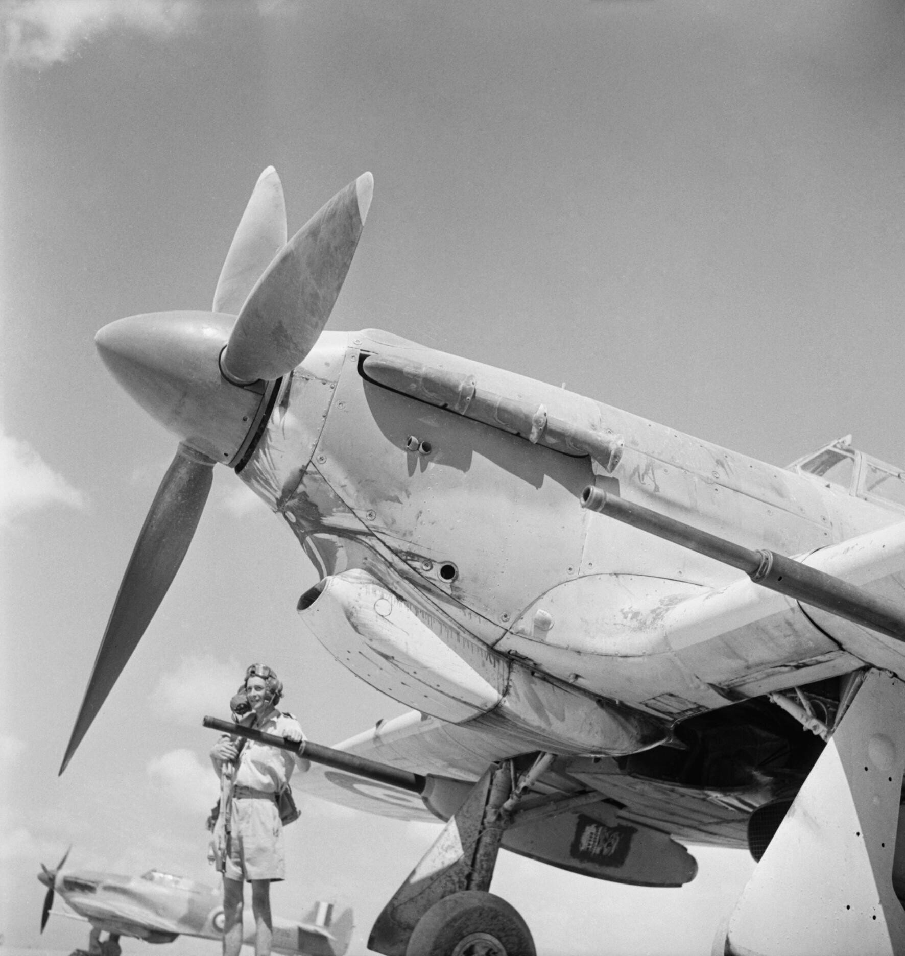 A pilot of No. 6 Squadron RAF stands by his Hawker Hurricane Mark IID at Shandur, Egypt. This view shows the 40 mm Vickers anti-tank cannon fitted to the Mark IID, which the Squadron employed to good effect in the fighting in North Africa.